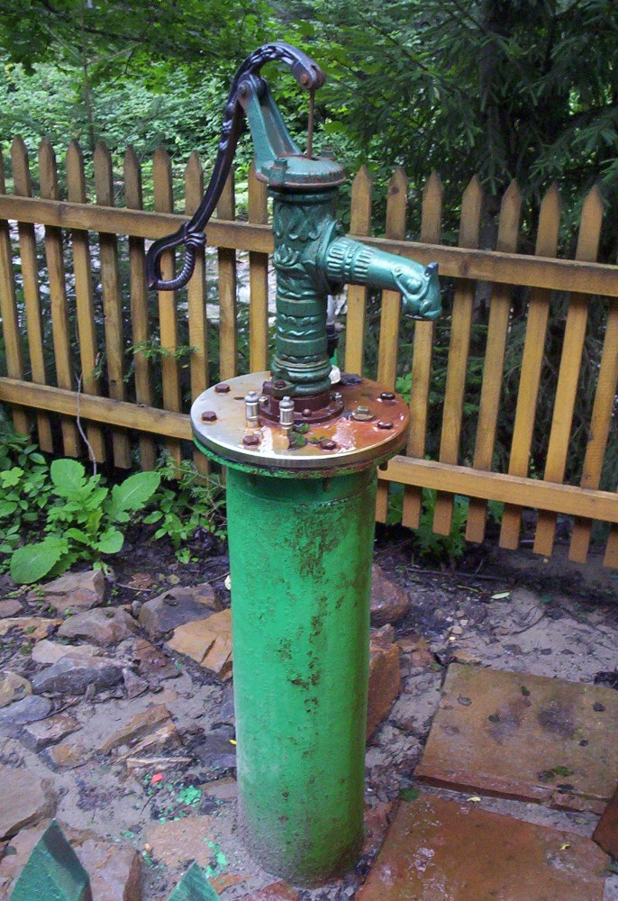 Pump on mineral water well ("Rabe 1"), Rabe, Poland